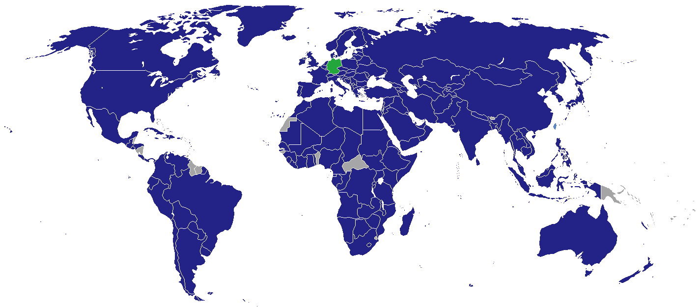 Map of diplomatic missiones in Germany